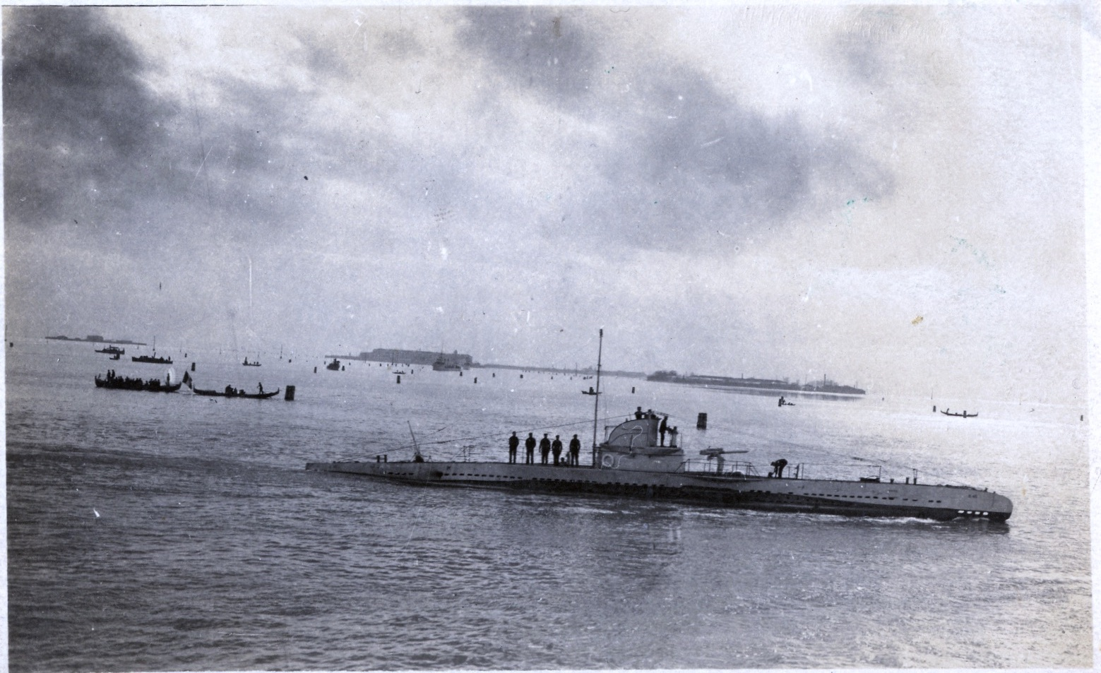 The arrive of the U40 submarine from Pola to Venice in 1919